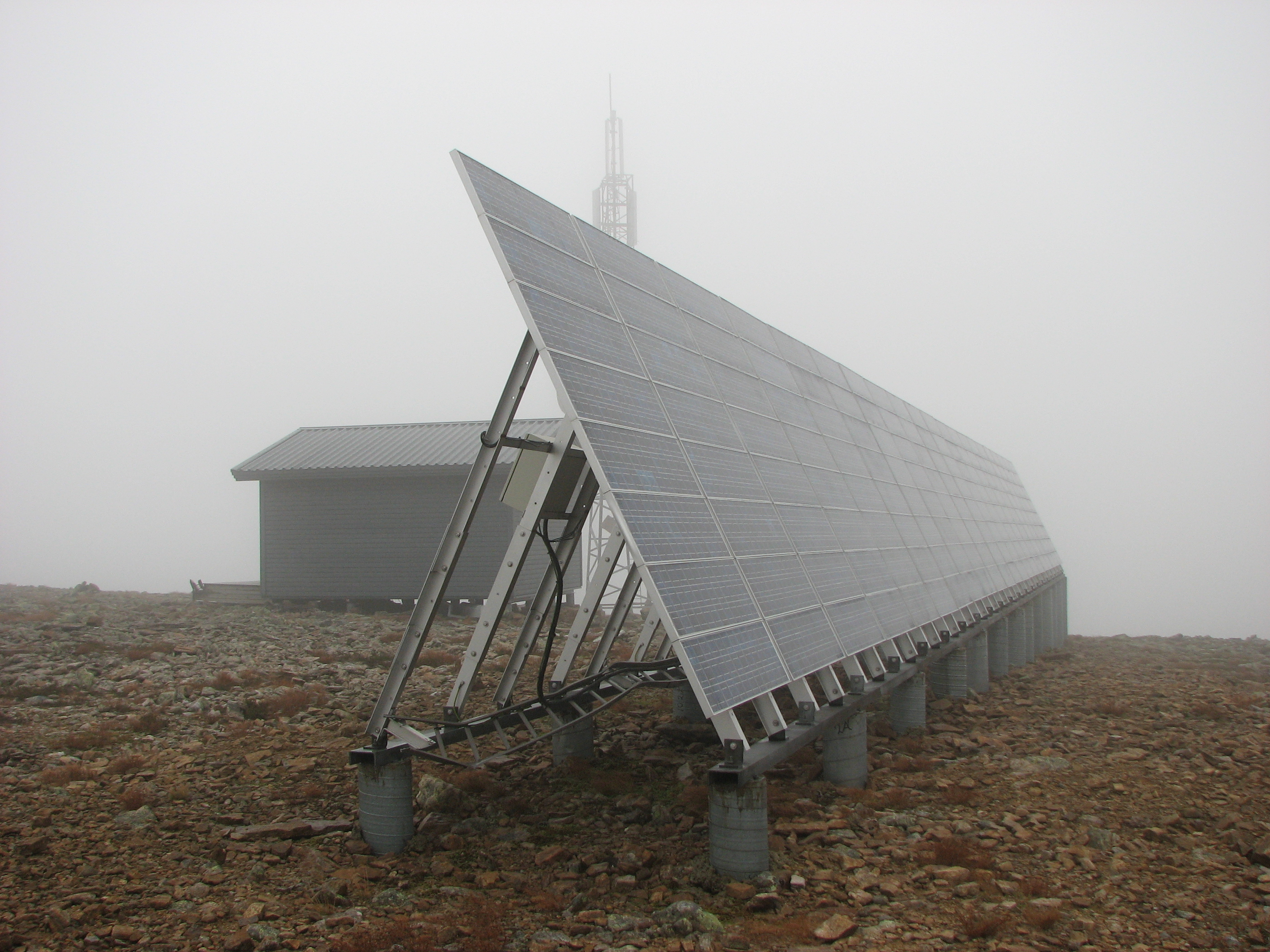 GSM base station with solar panel a couple of hundred meters from the peak of Sokosti in Finland.